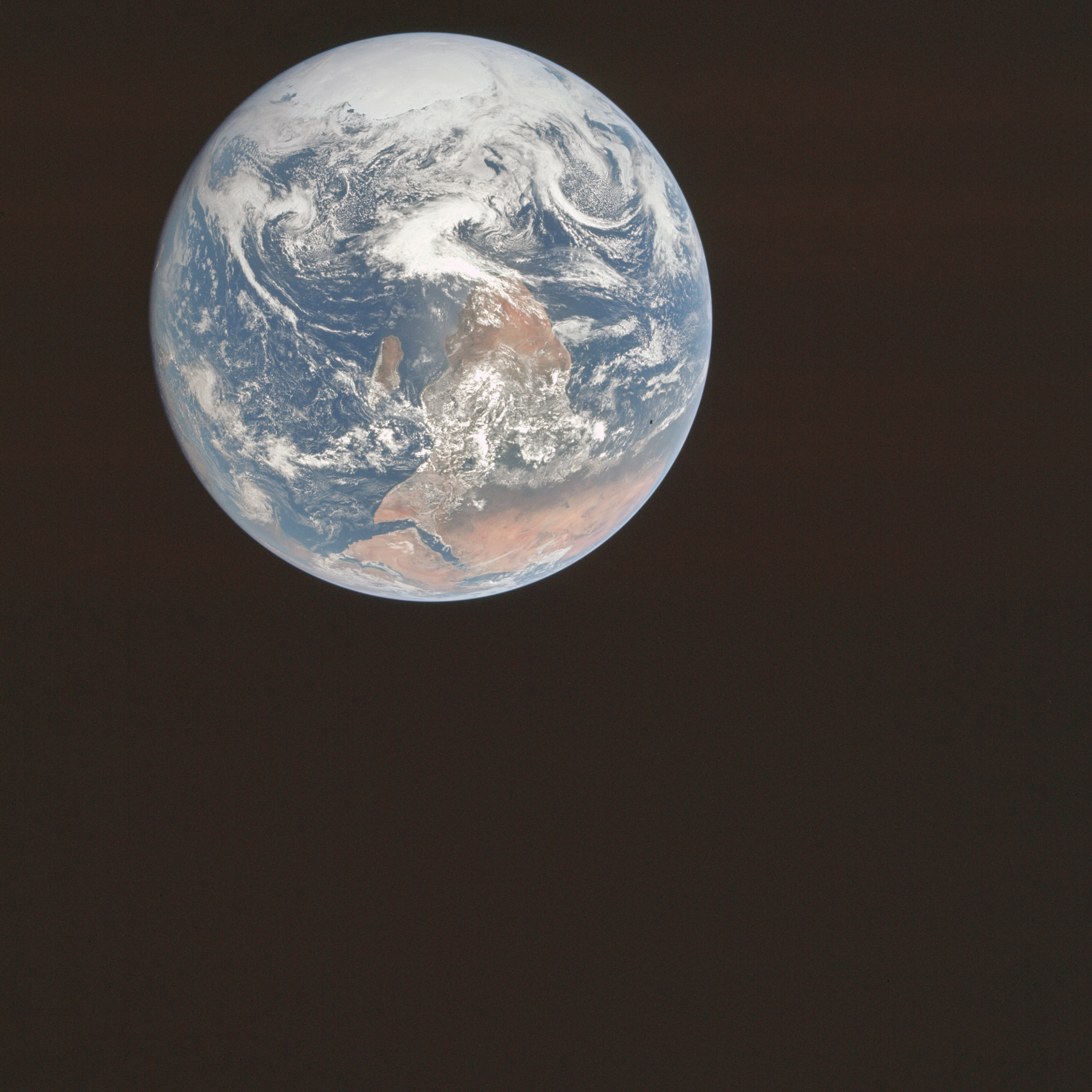 View of the Earth as seen by the Apollo 17 crew on December 7, 1972, traveling toward the moon. This translunar coast photograph extends from the Mediterranean Sea area to the Antarctica south polar ice cap. This is the first time the Apollo trajectory made it possible to photograph the south polar ice cap. Note the heavy cloud cover in the Southern Hemisphere. Almost the entire coastline of Africa is clearly visible. The Arabian Peninsula can be seen at the northeastern edge of Africa. The large island off the east coast of Africa is the Republic of Madagascar. The Asian mainland is on the horizon toward the northeast.